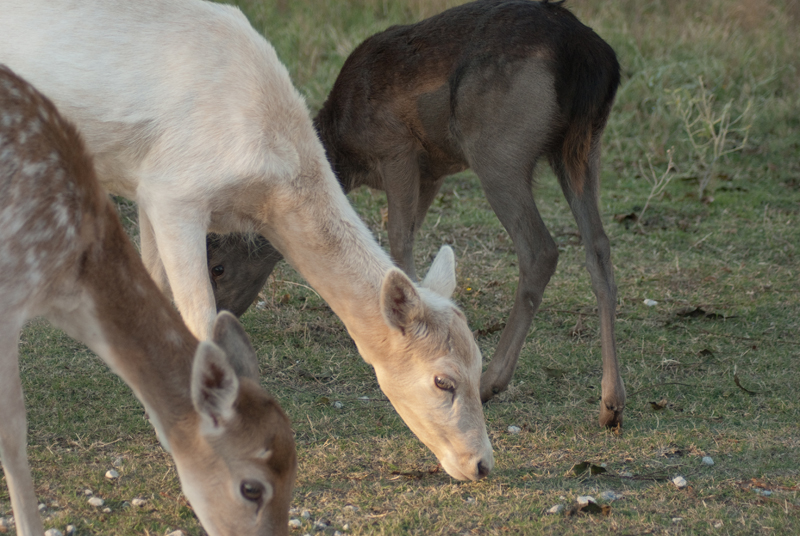 Three color variants of Fallow Deer I photographed at the Fossil Rim Wildlife Center in Glen Rose, Texas.